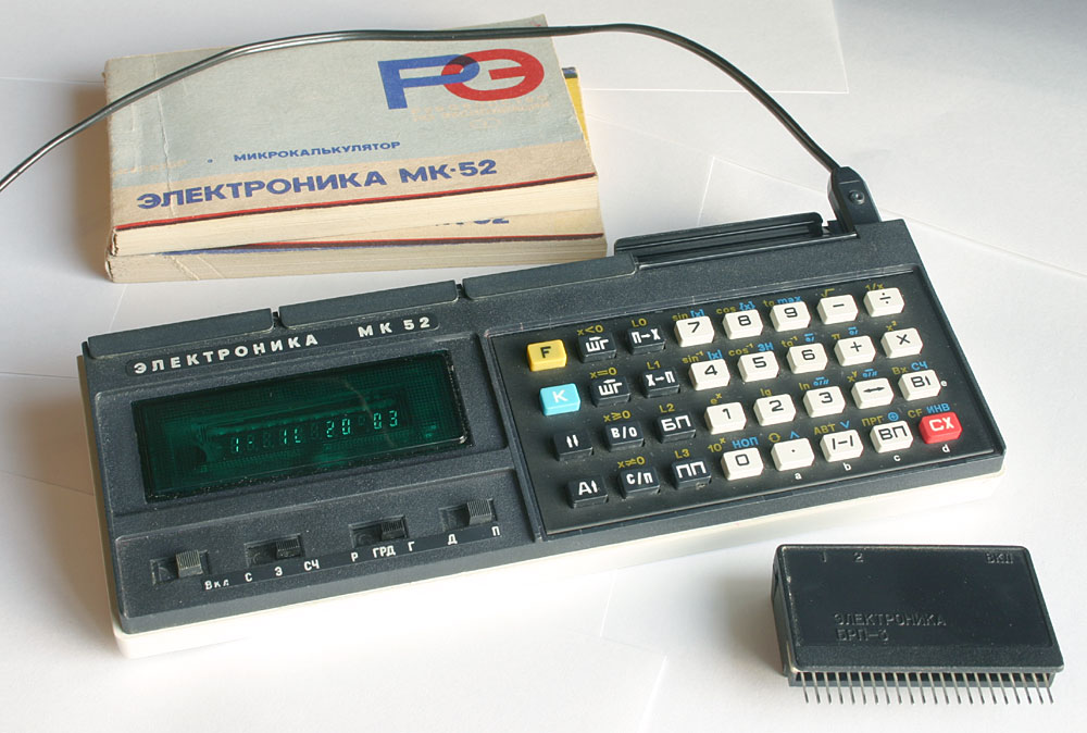 Elektronika MK-52 with accessories